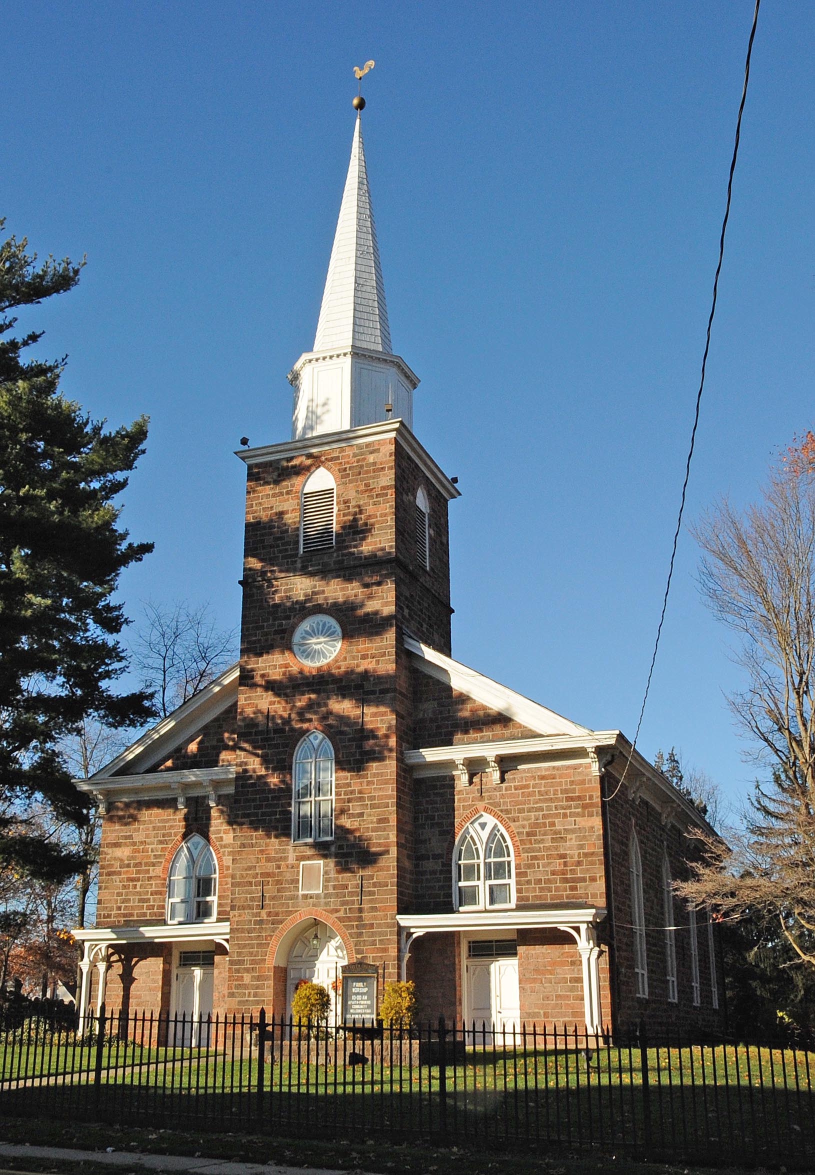 STARTED IN 1723 AS A DUTCH REFORMED CHURCH AND THIS BUILDING, THE SECOND CHURCH, WAS BUILT IN 1799. THE CHURCH BECAME PRESBYTERIAN IN 1913.